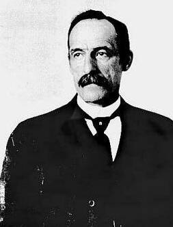 Nathan Cobb, nematologist, photo taken before January 1st 1923